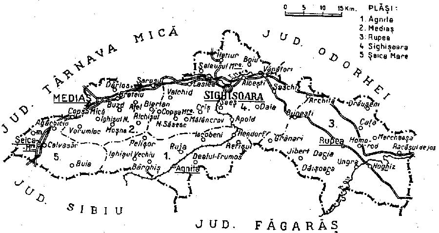 Map of Târnava Mare interwar county, Kingdom of Romania (1938).